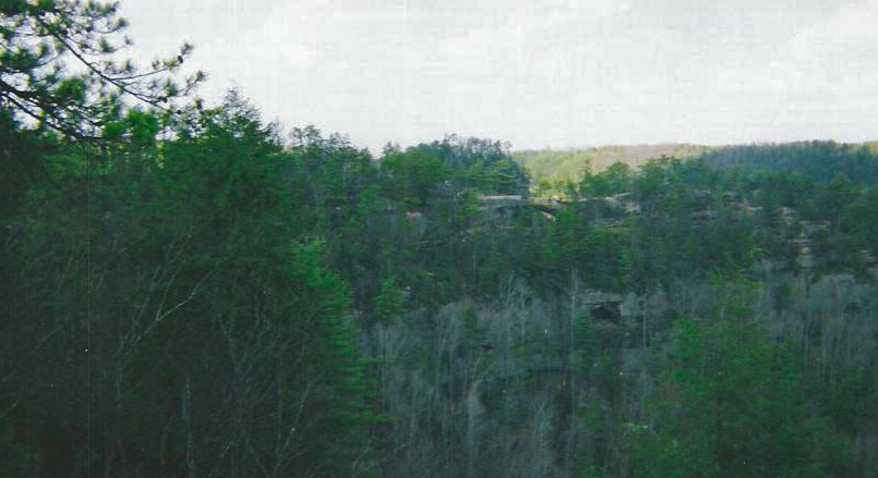 Natural arch in Red River Gorge, Kentucky.